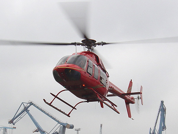 Bell 407 helicopter approaching Hamburg / harbour temporary heliport. Owned by a local company. Picture taken at Hamburg / harbour area. This Bell 407 has been sold to Canada as C-FNAS in 2005 according to information available in the internet.